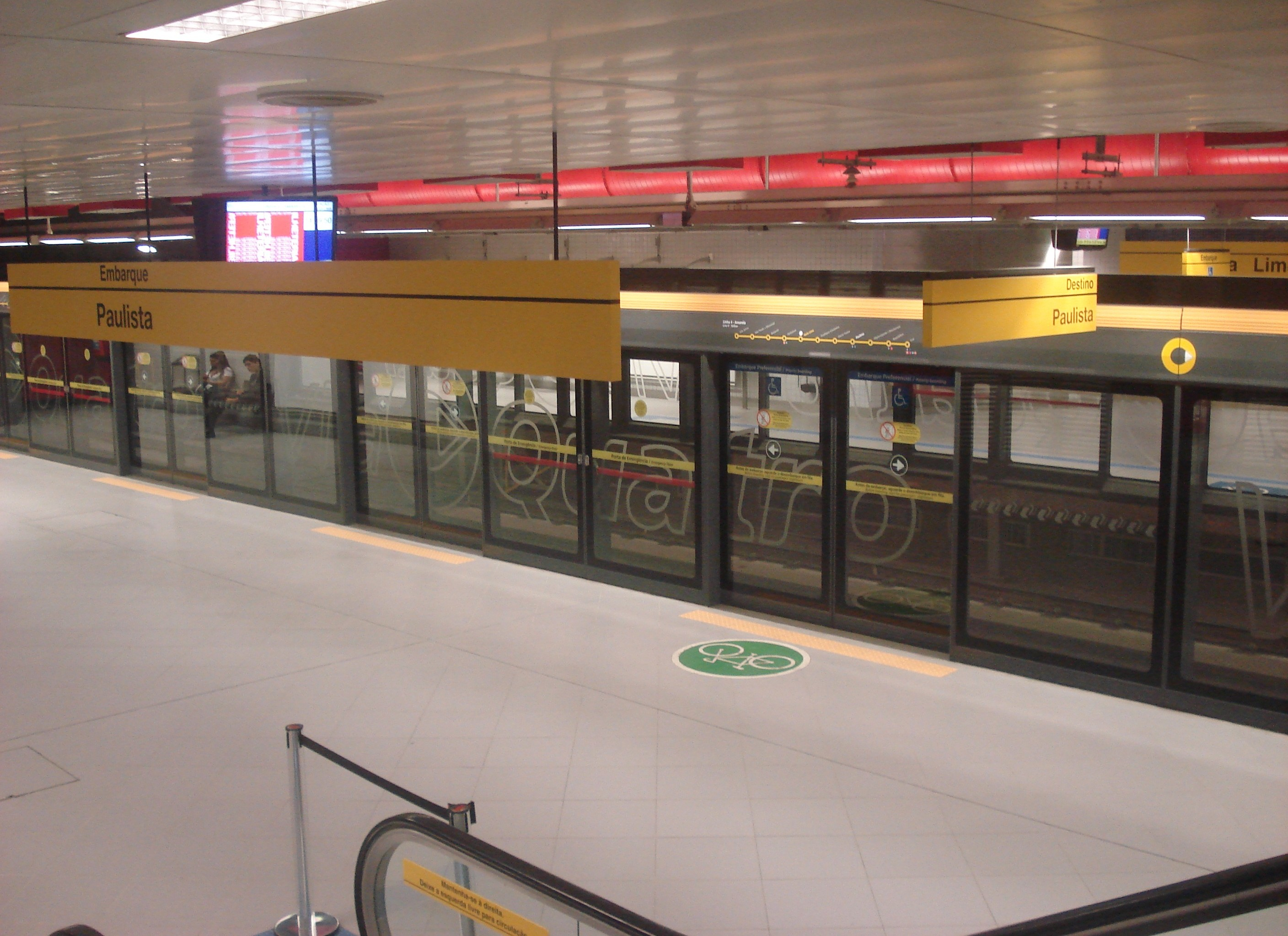 Faria Lima Station of Line 4 - Yellow. São Paulo Metro.